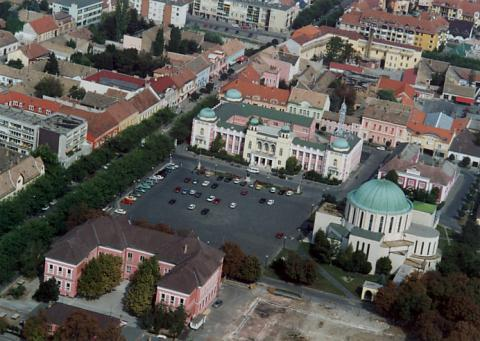 Mohács, Hungary, aerialphotography